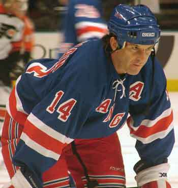 Brendan Shanahan of the New York Rangers during a game against the Philadelphia Flyers.